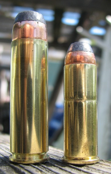 Comparison of a 500 Smith & Wesson Magnum (left) and 44 Remington Cartridges.